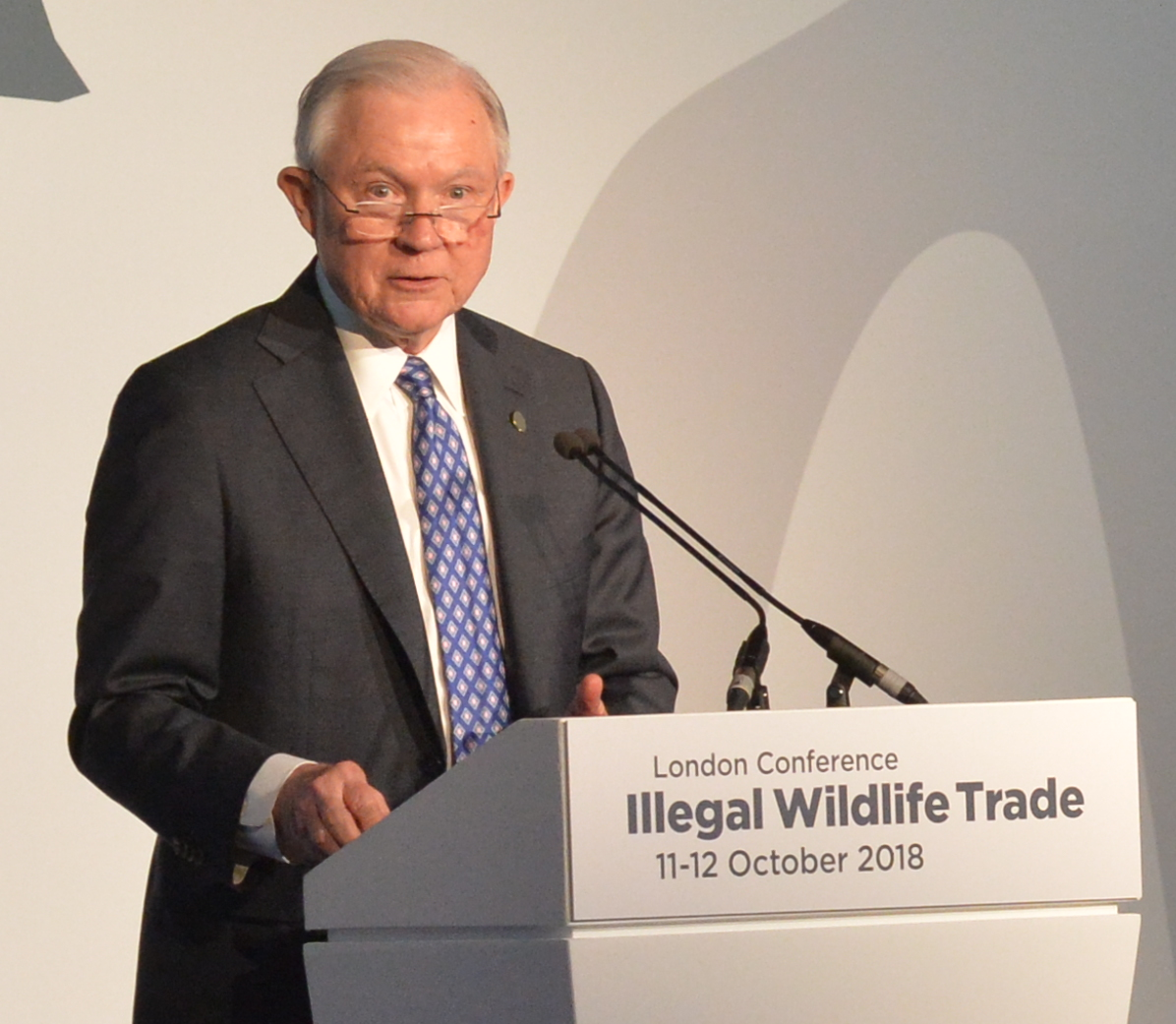 The Hon Jeff Sessions, US Attorney General speaking at the Illegal Wildlife Trade Conference: London 2018, 11 October 2018. Photographer: Mark Mackenzie